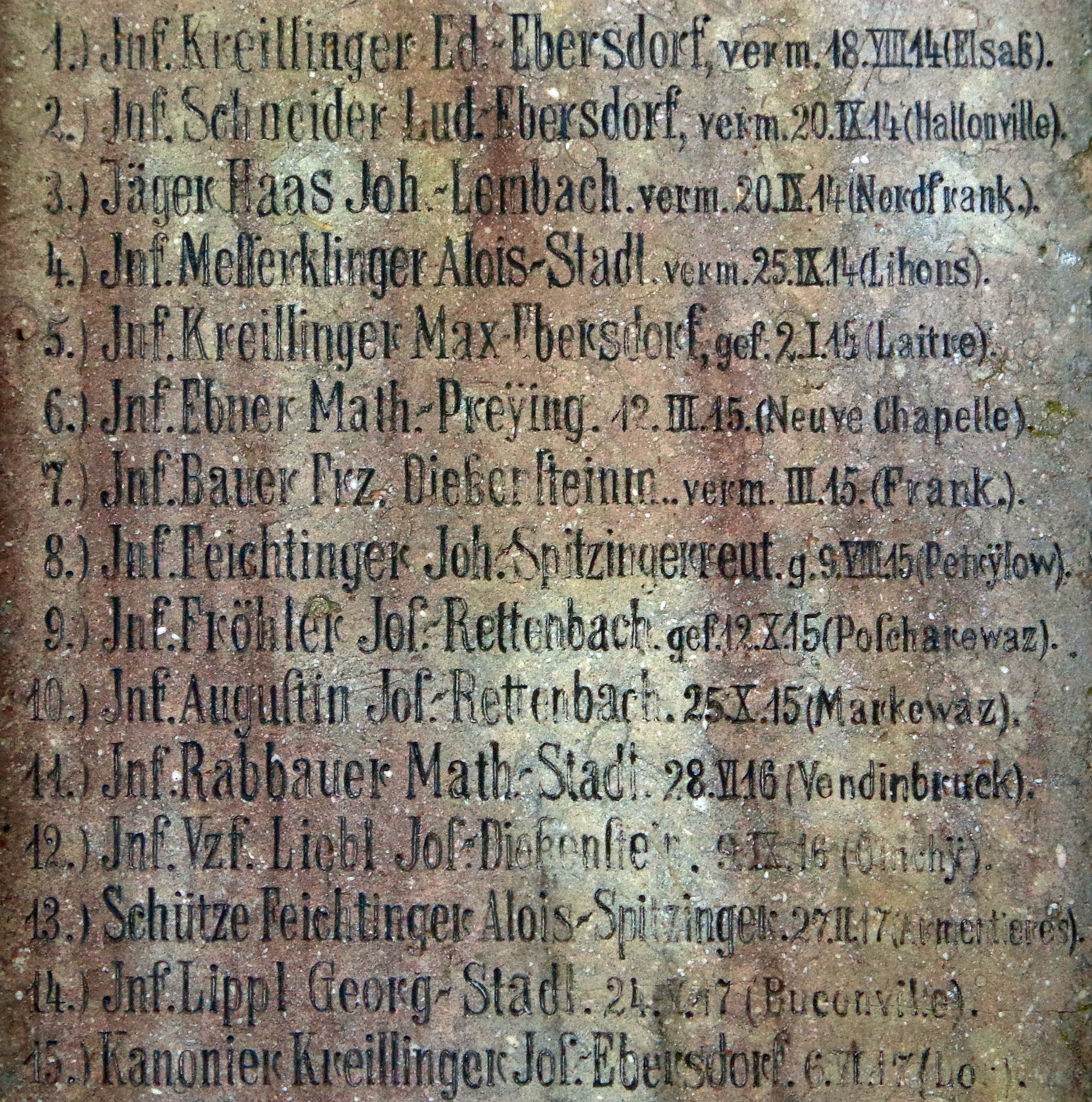 Extract of the list of World War I dead from the village of Preying (municipality of Saldenburg, district of Freyung-Grafenau in Bavaria, Germany) - part of the village war memorial